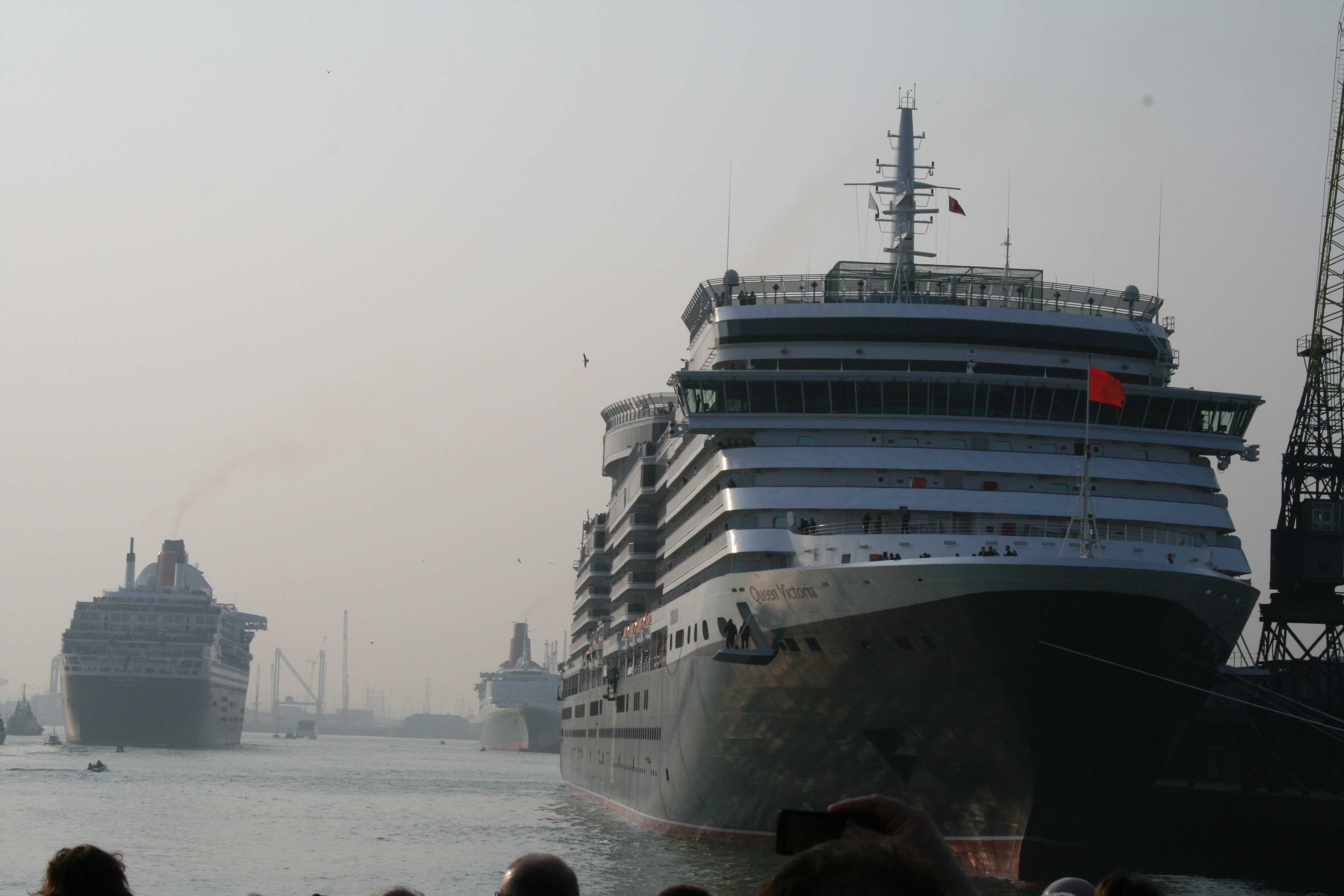 Queen Victoria in Southampton with QM2 passing her. QE2 can be seen behind her.